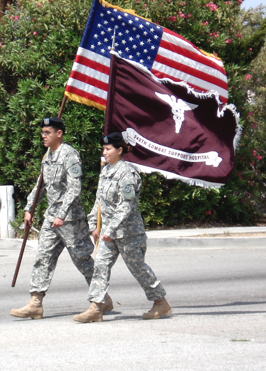 Combat Support Hospital unit marching in the Torrance Armed Forces Day Parade